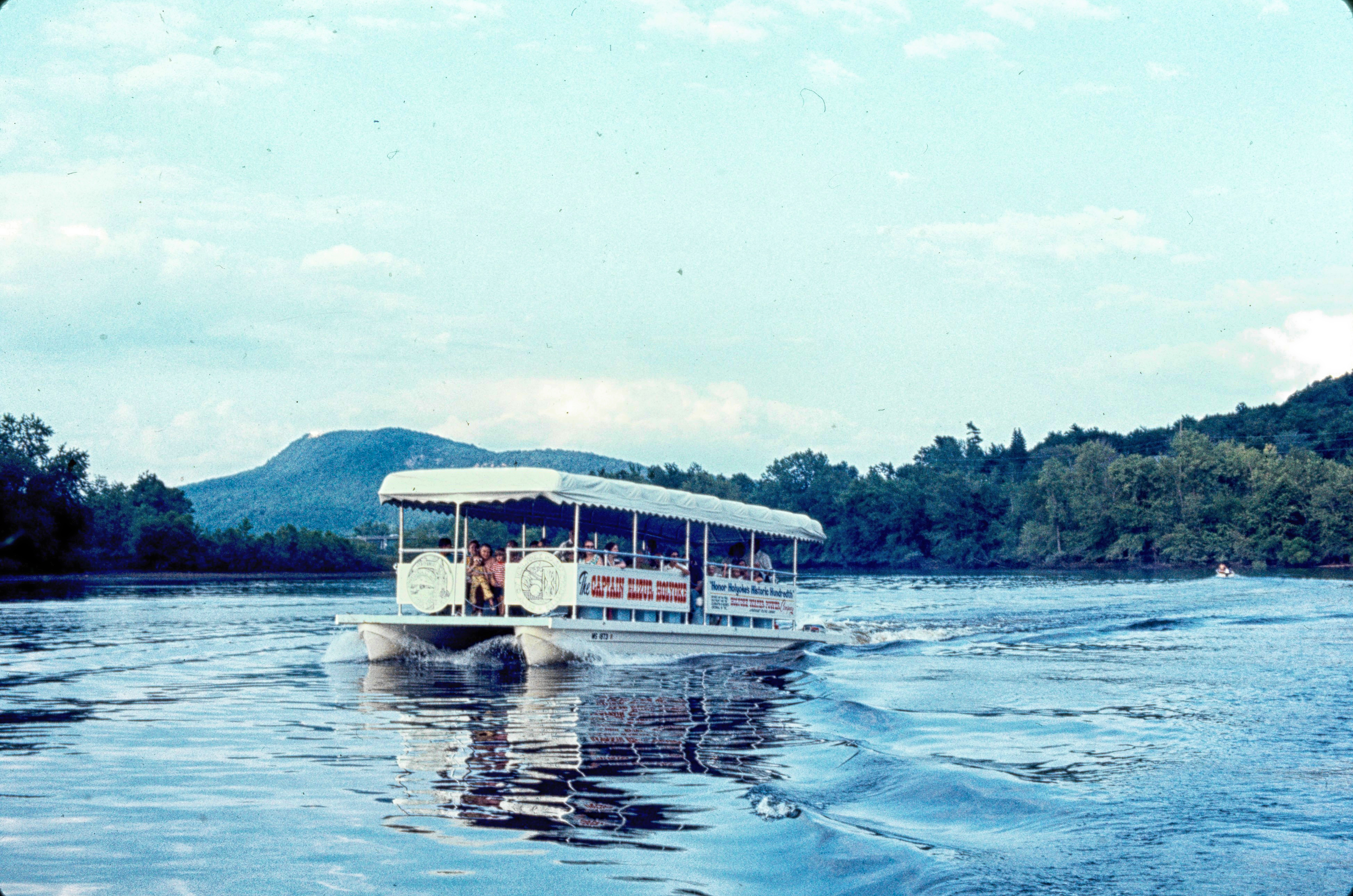 The Capt. Elizur Holyoke pontoon boat of the Holyoke Water Power Company for the city's 100th anniversary celebration in 1973.